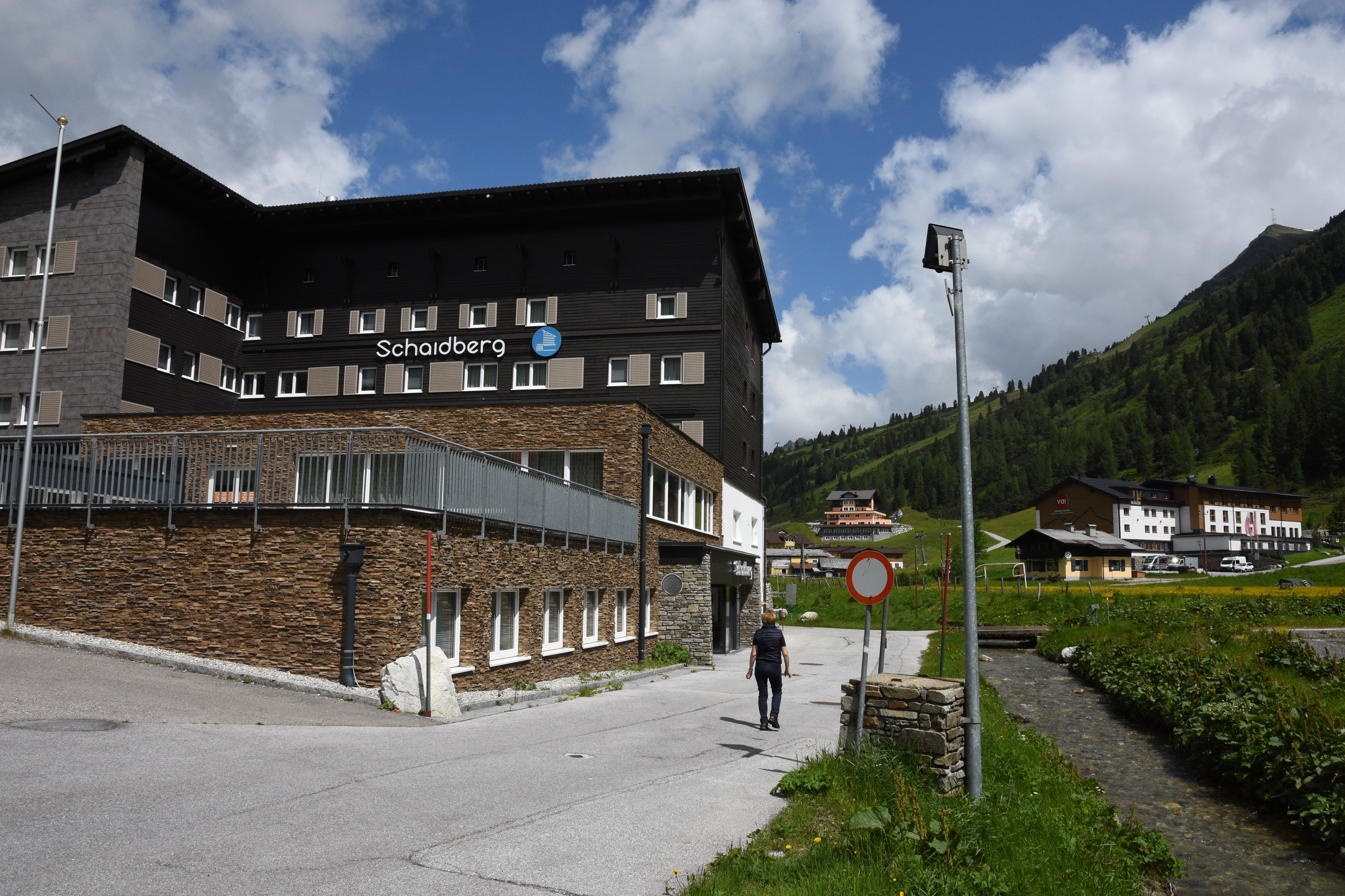 Tauernhaus Schaidberg